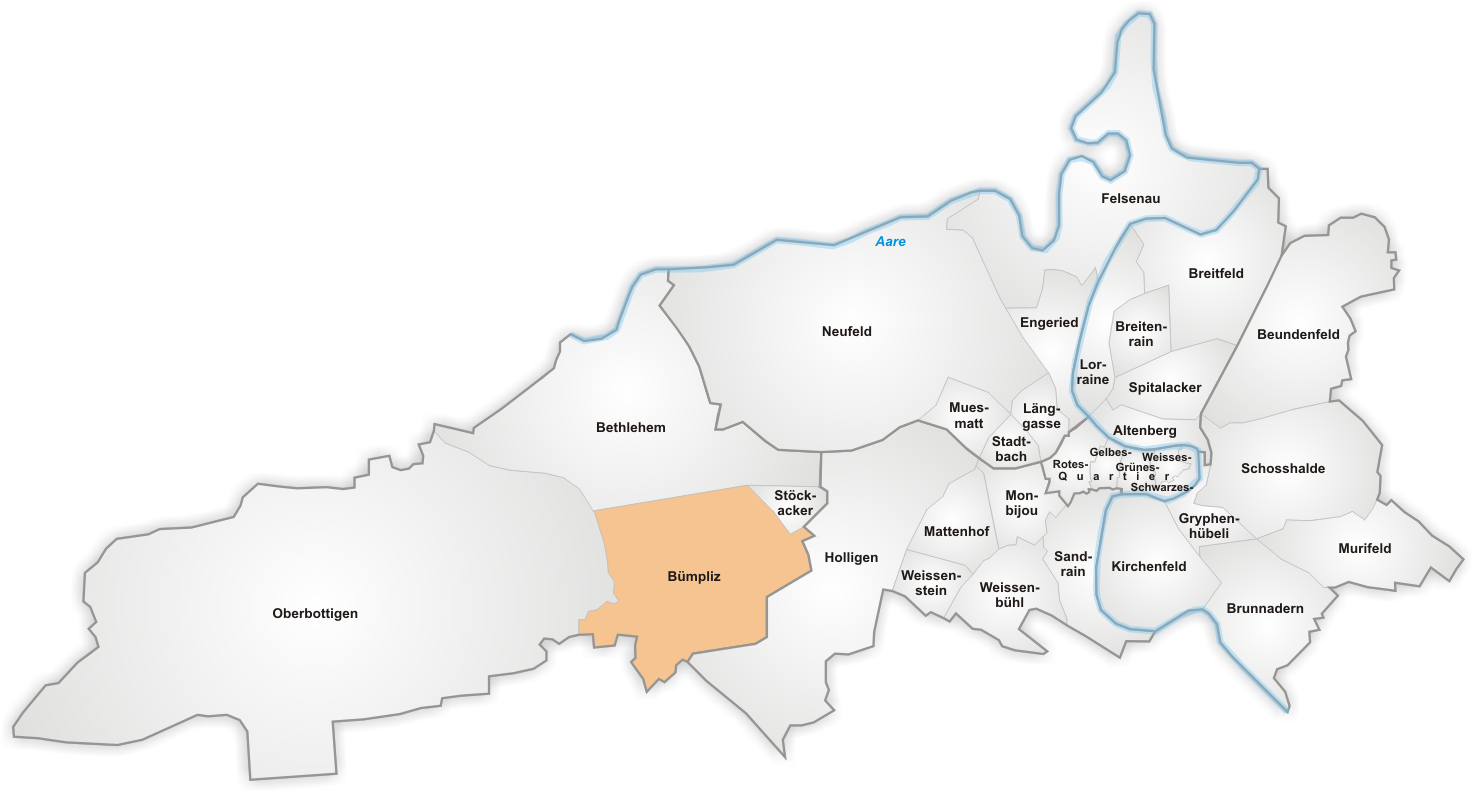 Quarters Bümpliz